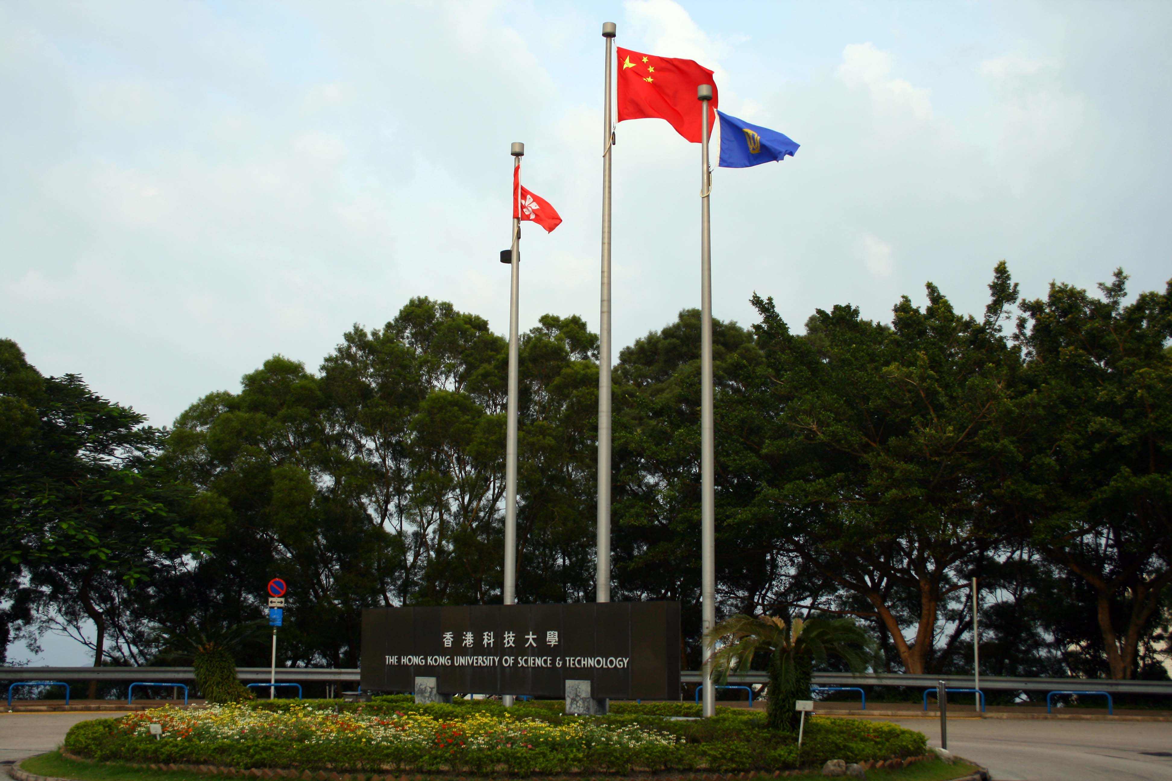 The gate of HKUST on the Clear Water Bay Road